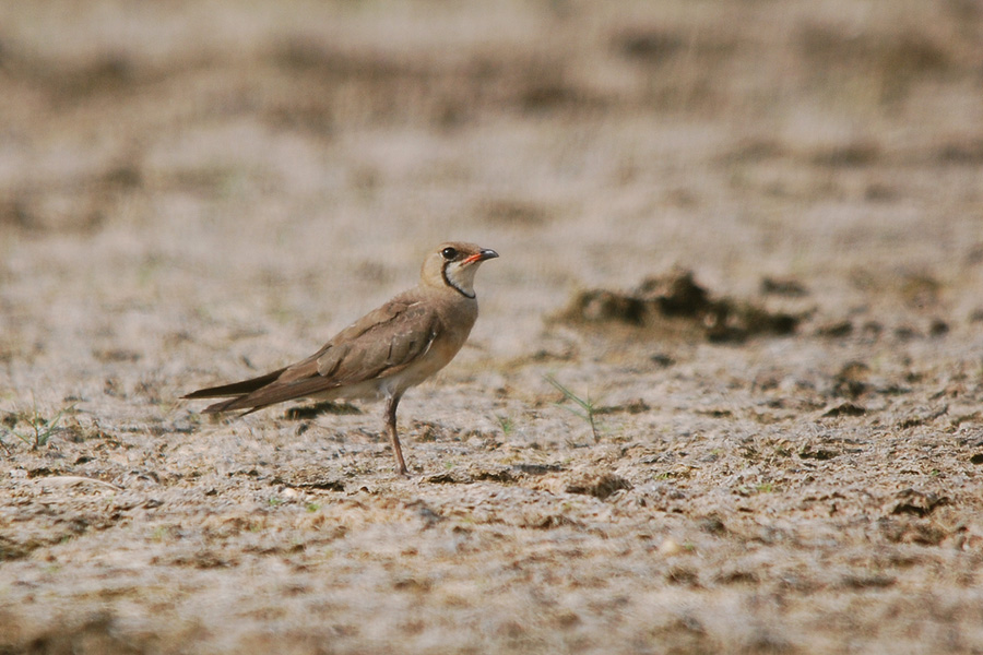 OrientalPratincole